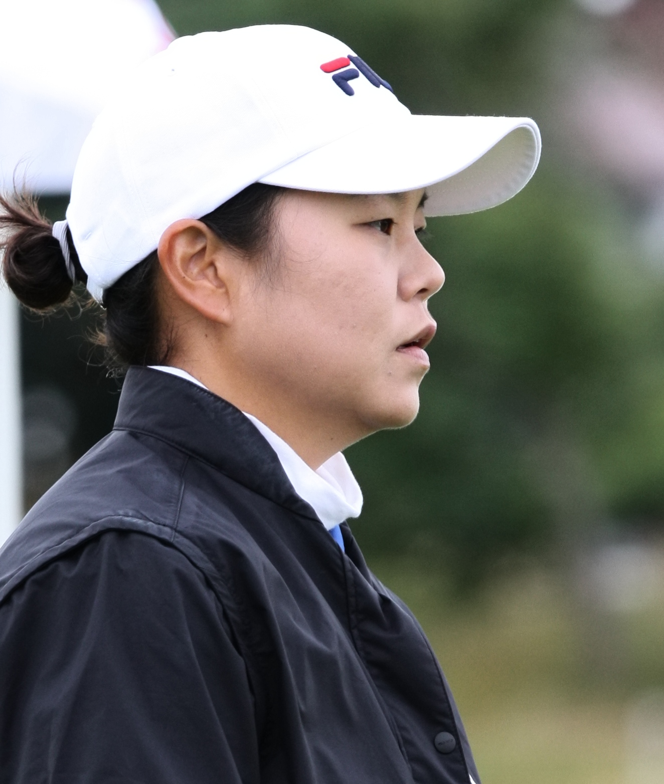 LYTHAM ST ANNES, UNITED KINGDOM - JULY 29: Hee-Won Han of South Korea on the 11th green during third practice round before 2009 Ricoh Women's British Open held at Royal Lytham & St Annes on July 29, 2009 in Lytham St Annes, England. (Photo by Wojciech Migda)